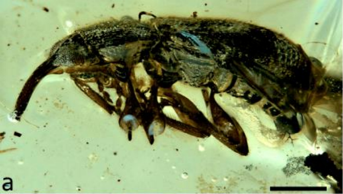 Acalyptopygus brevicornis, holotype. Habitus, left lateral (a); Scale bar: 0.5 mm